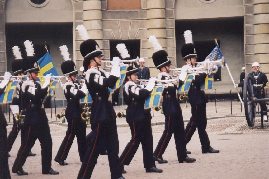 Royal Swedish Army Drum Corps performing at changing of the guards ceremony at the Royal Palace in Stockholm